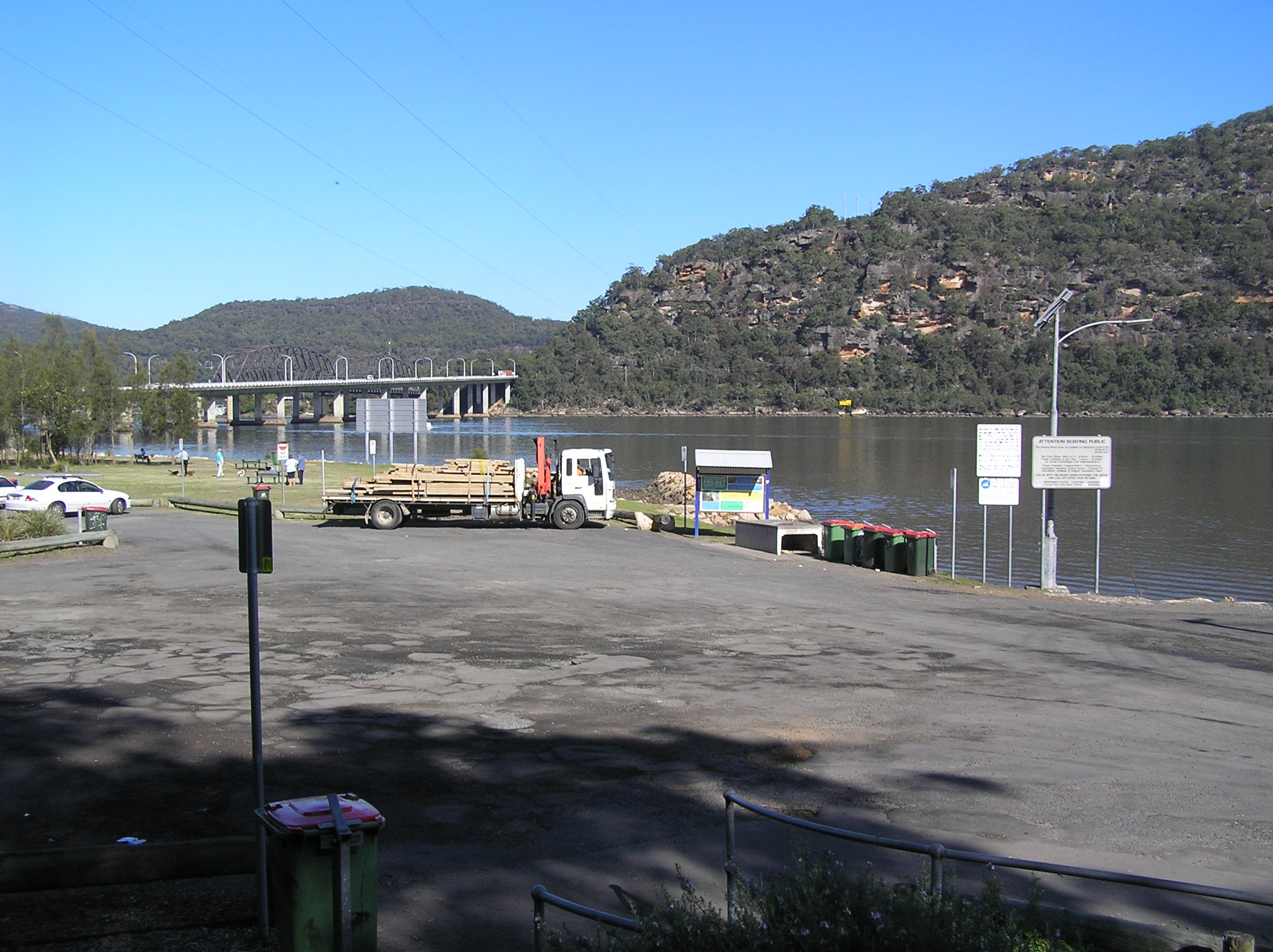 Deerubben Reserve's public facilities include wharf and boat ramps (out of view to right), car and trailer parking area, fish-cleaning table, advisory signs (boating, fishing, personal water craft and navigation), picnic tables and amenities. The concrete Hawkesbury River Bridge (1977) is centre distant, with the steel-truss Peats Ferry Bridge (1945) immediately behind.